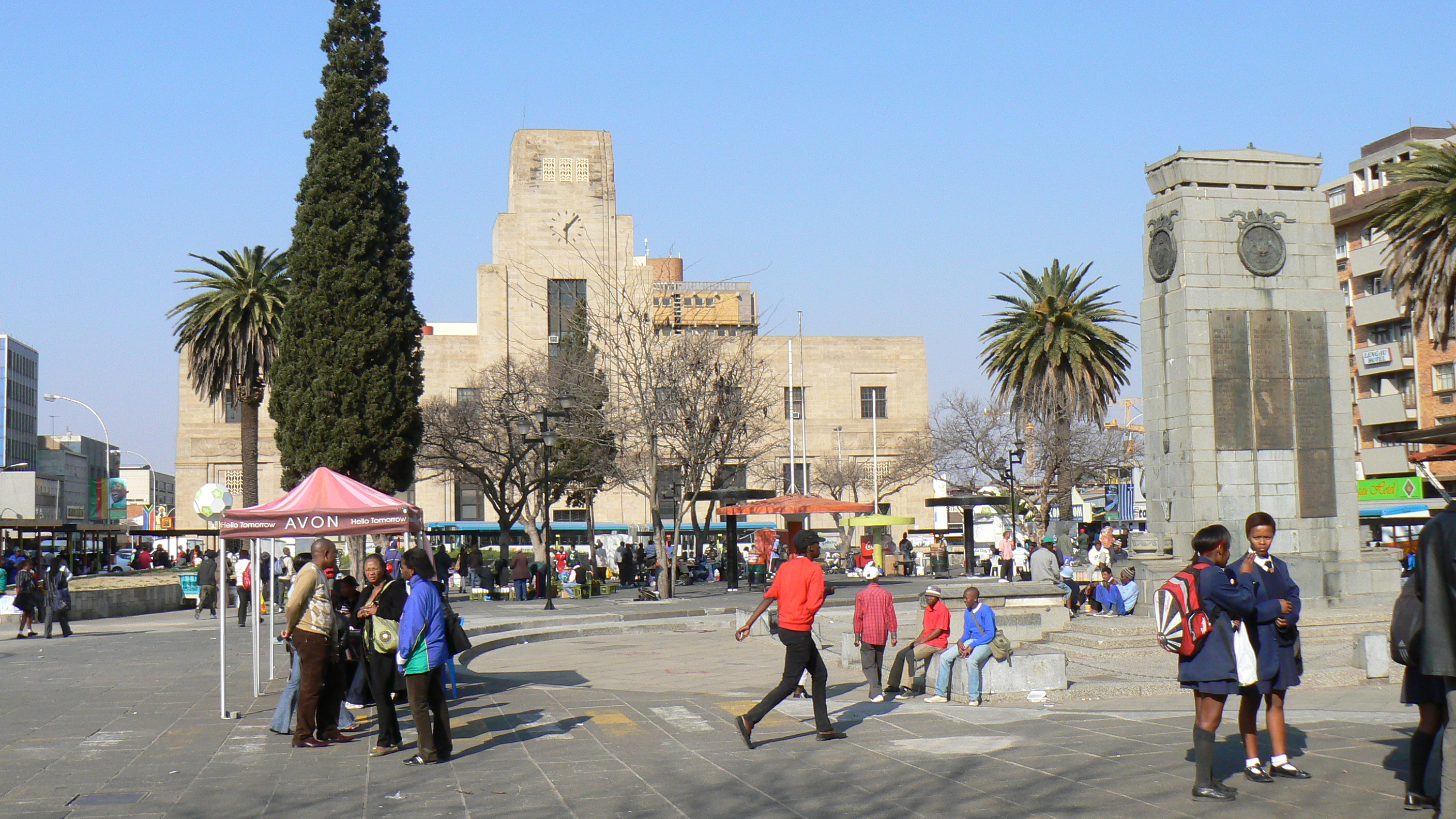 Elizabeth le Roux Hostel, 99 Aliwal Street, Bloemfontein This media shows a South African Protected Site with SAHRA file reference 9/2/302/0051.